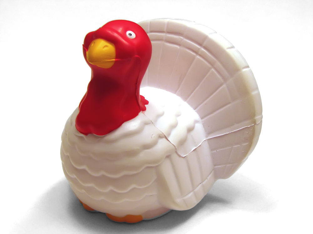 Turkey-Shaped Foam Stress Reliever